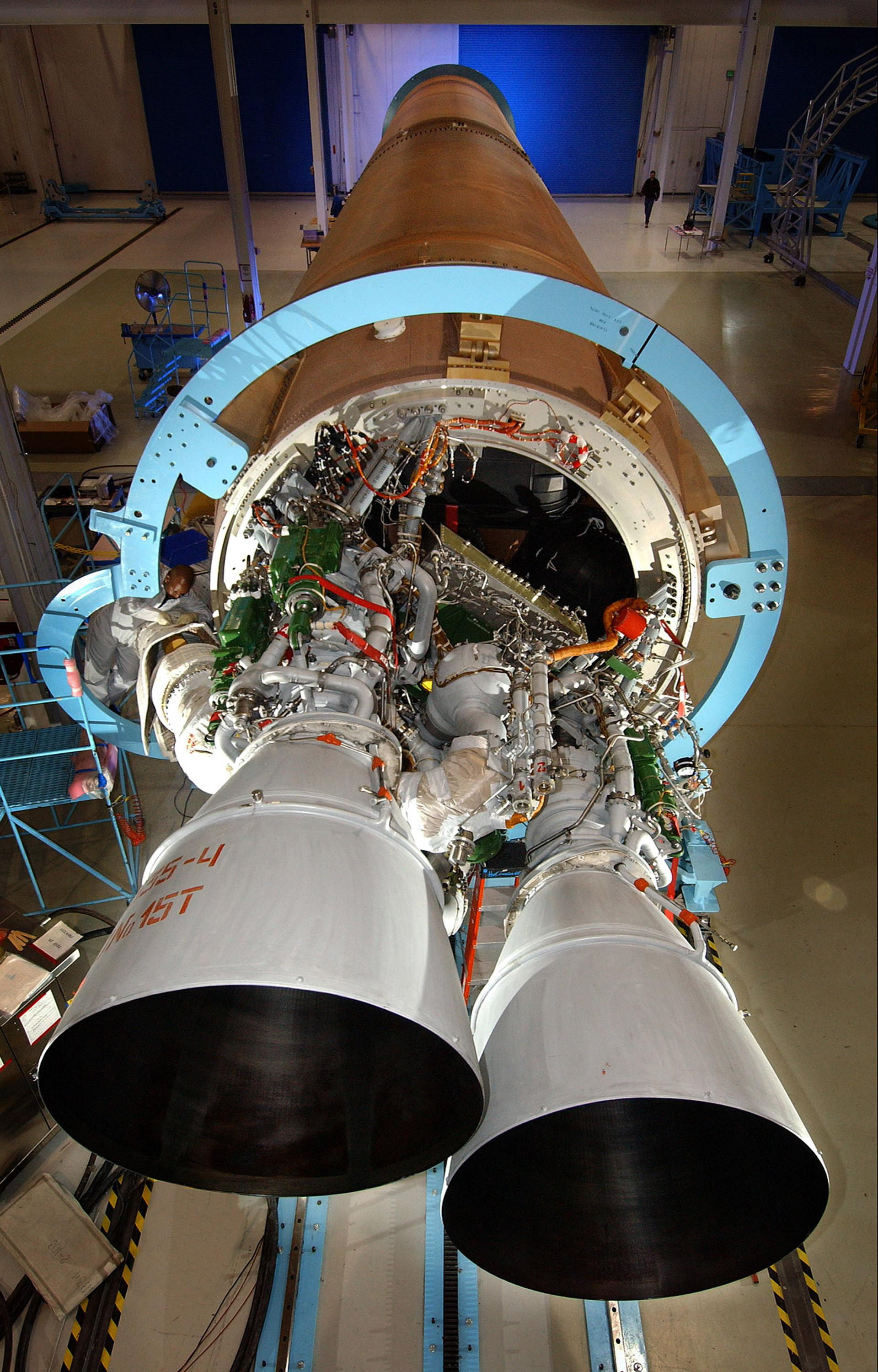 The Atlas V, known as AN007, shown here is in Lockheed Martin’s Final Assembly Building where it is being prepared for shipping to NASA’s Kennedy Space Center. The Atlas V is the launch vehicle for the Mars Reconnaissance Orbiter (MRO). The MRO is designed for a series of global mapping, regional survey and targeted observations from a near-polar, low-altitude Mars orbit. These observations will be unprecedented in terms of the spatial resolution and coverage achieved by the orbiter’s instruments as they observe the atmosphere and surface of Mars while probing its shallow subsurface as part of a “follow the water” strategy. The orbiter is undergoing environmental tests in facilities at Lockheed Martin Space Systems in Denver, Colo., and is on schedule for a launch window that opens Aug. 10. Launch will be from Complex 41 at Cape Canaveral Air Force Station in Florida.